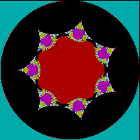 Complex recursive fractal, power -6